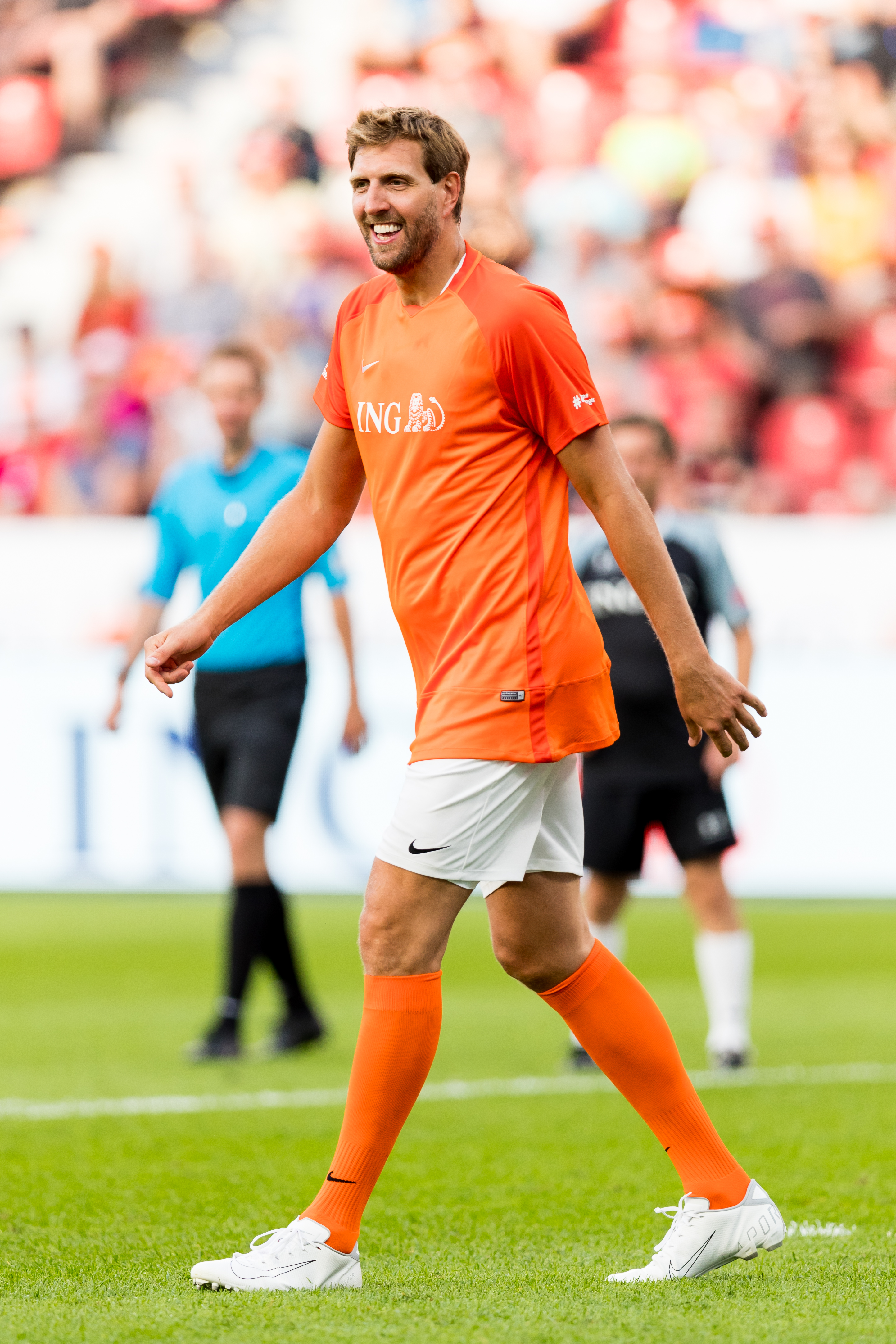 Dirk Nowitzki during Champions for Charity at BayArena, Leverkusen, Nordrhein-Westfalen, Germany on 2019-07-21, Photo: Sven Mandel